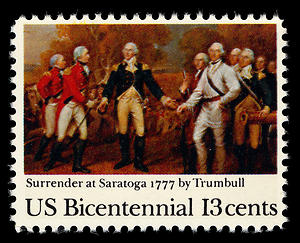 USPOD 13-cent American Bicentennial stamp issued in 1977 for the 200th anniversary of the surrender of General John Burgoyne (1723-1792) (British commander} to General Horatio Gates (1726–1806) (US commander) at Saratoga